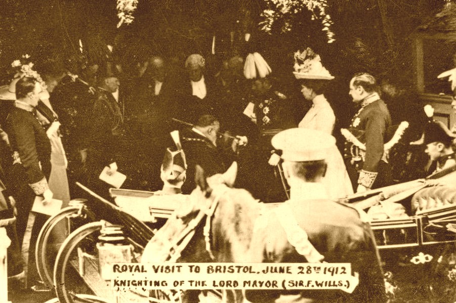 Detail from a postard in 1912 showing Sir Frank William Will being knighted by George V